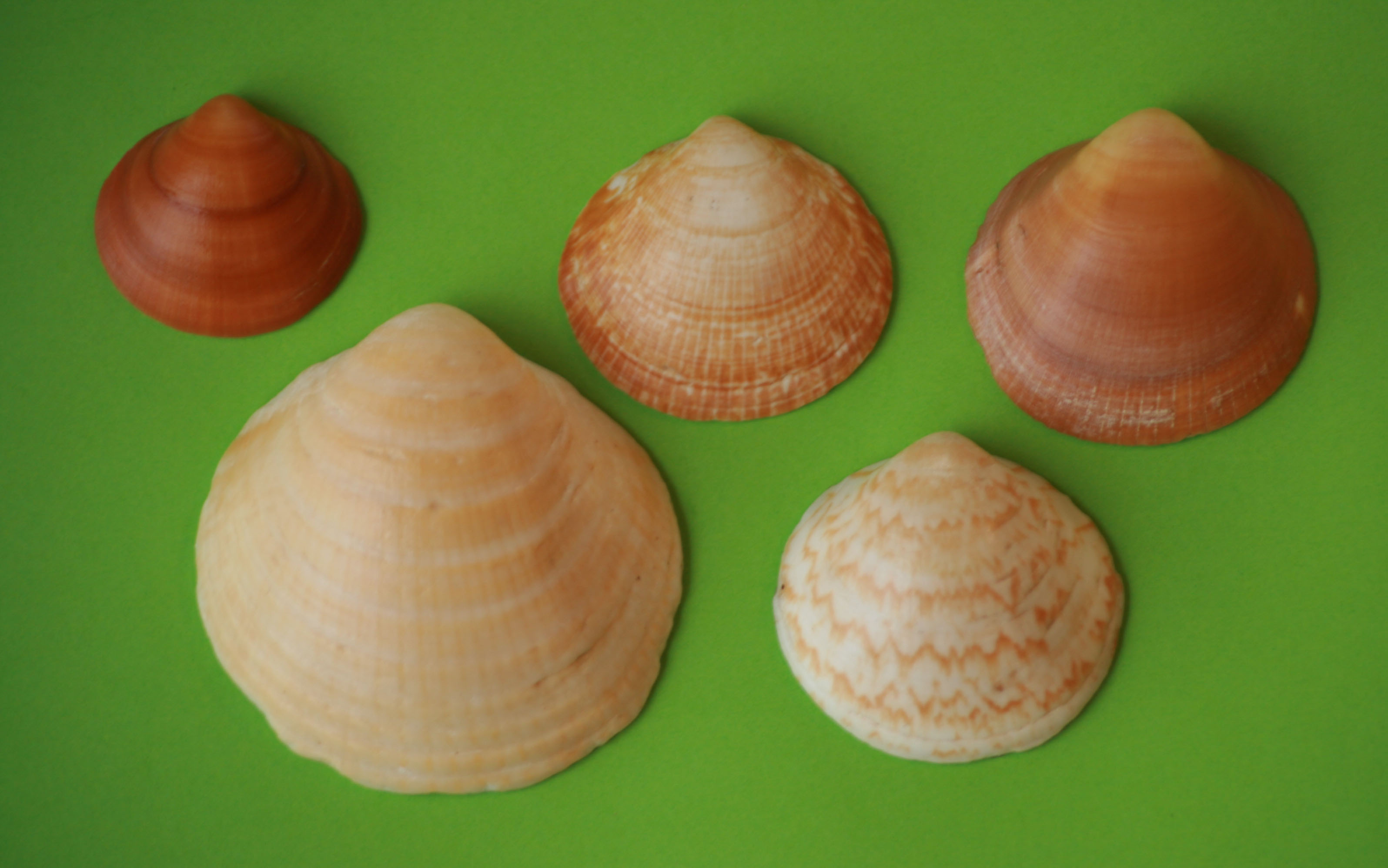 Glycymeris_glycymeris, bivalve found in Galicia (Spain)